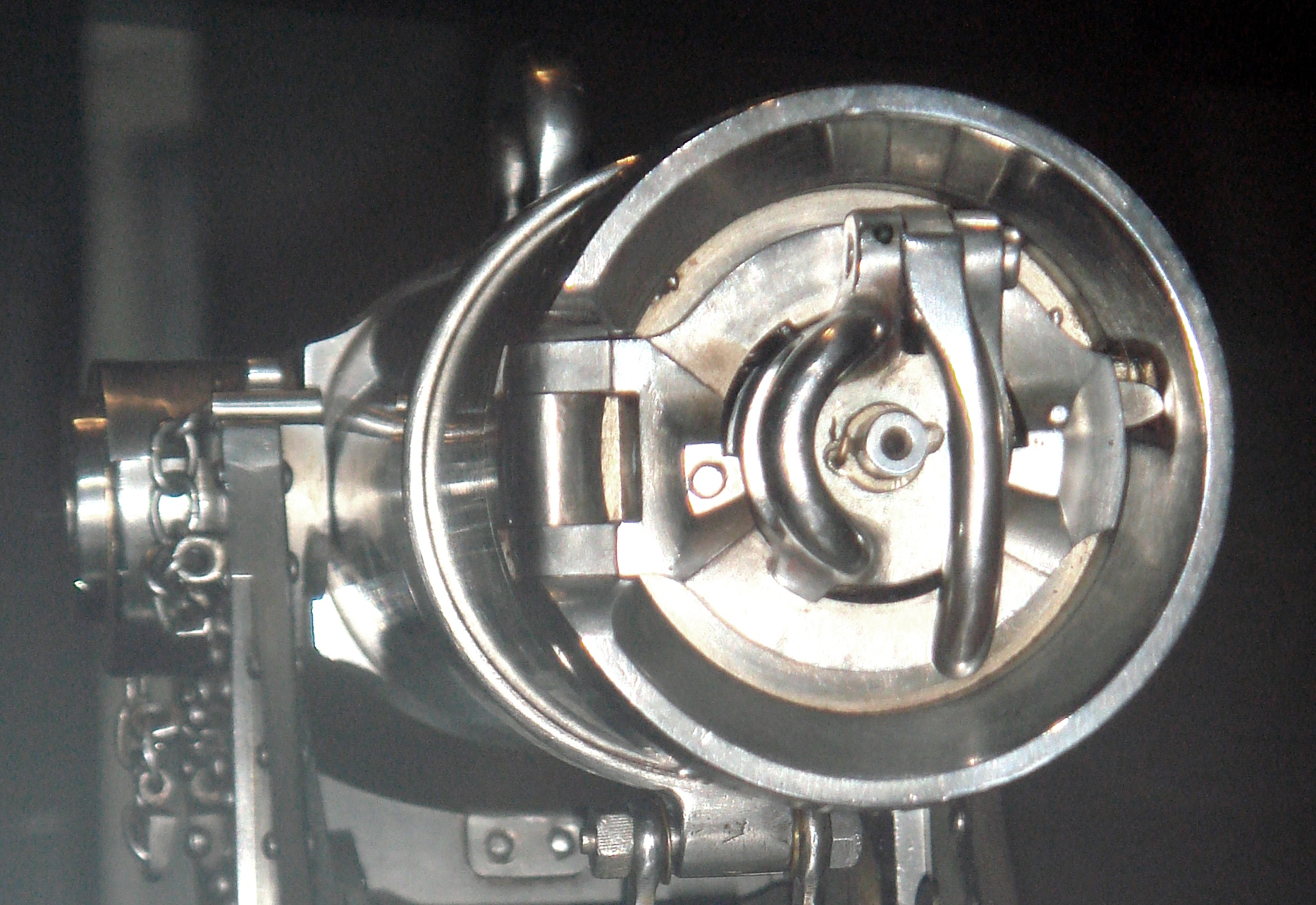 De_Bange_155mm_breech_view